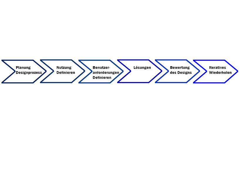 UX Design Process